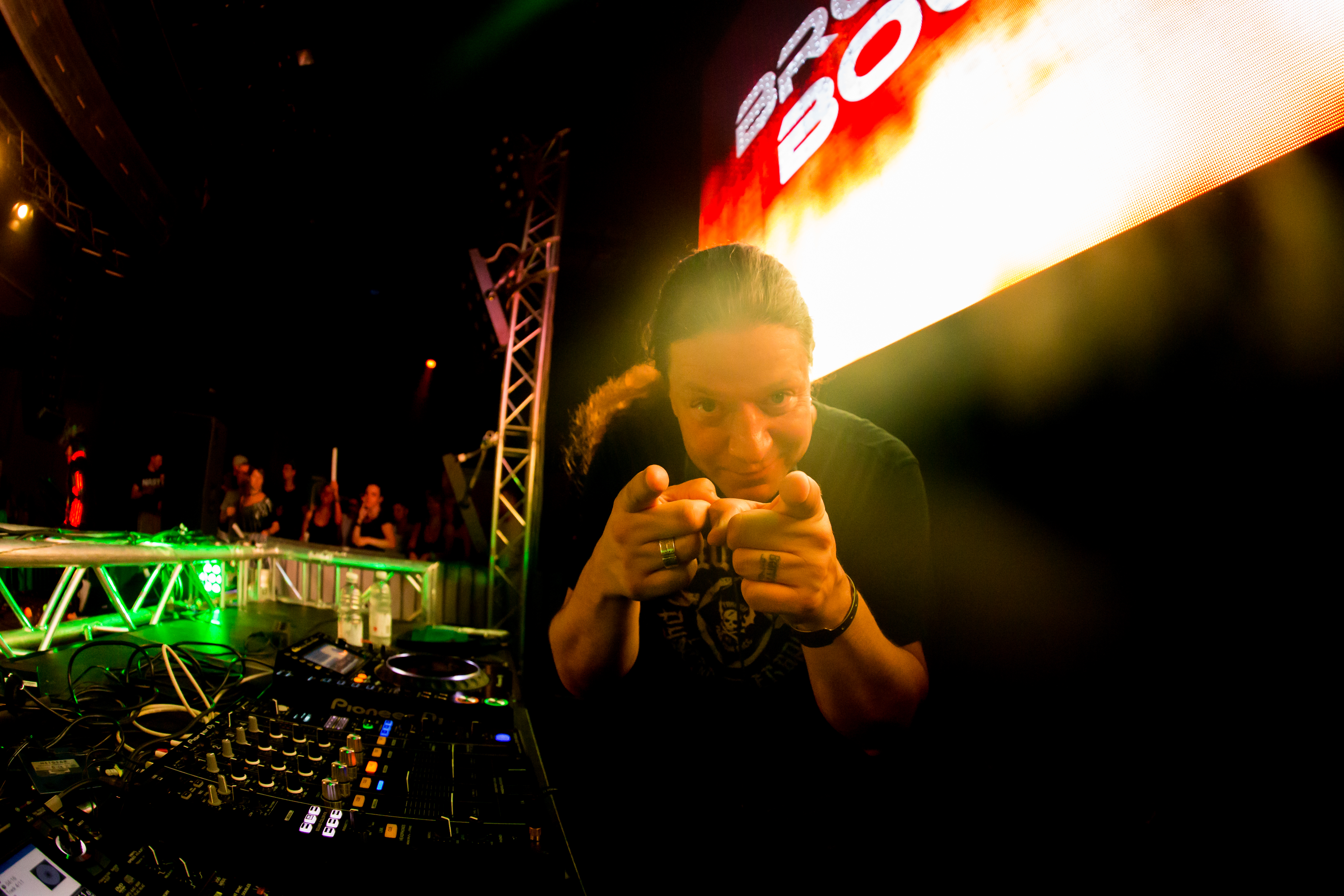 Brooklyn Bounce during Sunshine Live - Die 2000er Live on Stage at Maimarkt Club, Mannheim, Baden-Württemberg, Germany on 2016-09-11, Photo: Sven Mandel